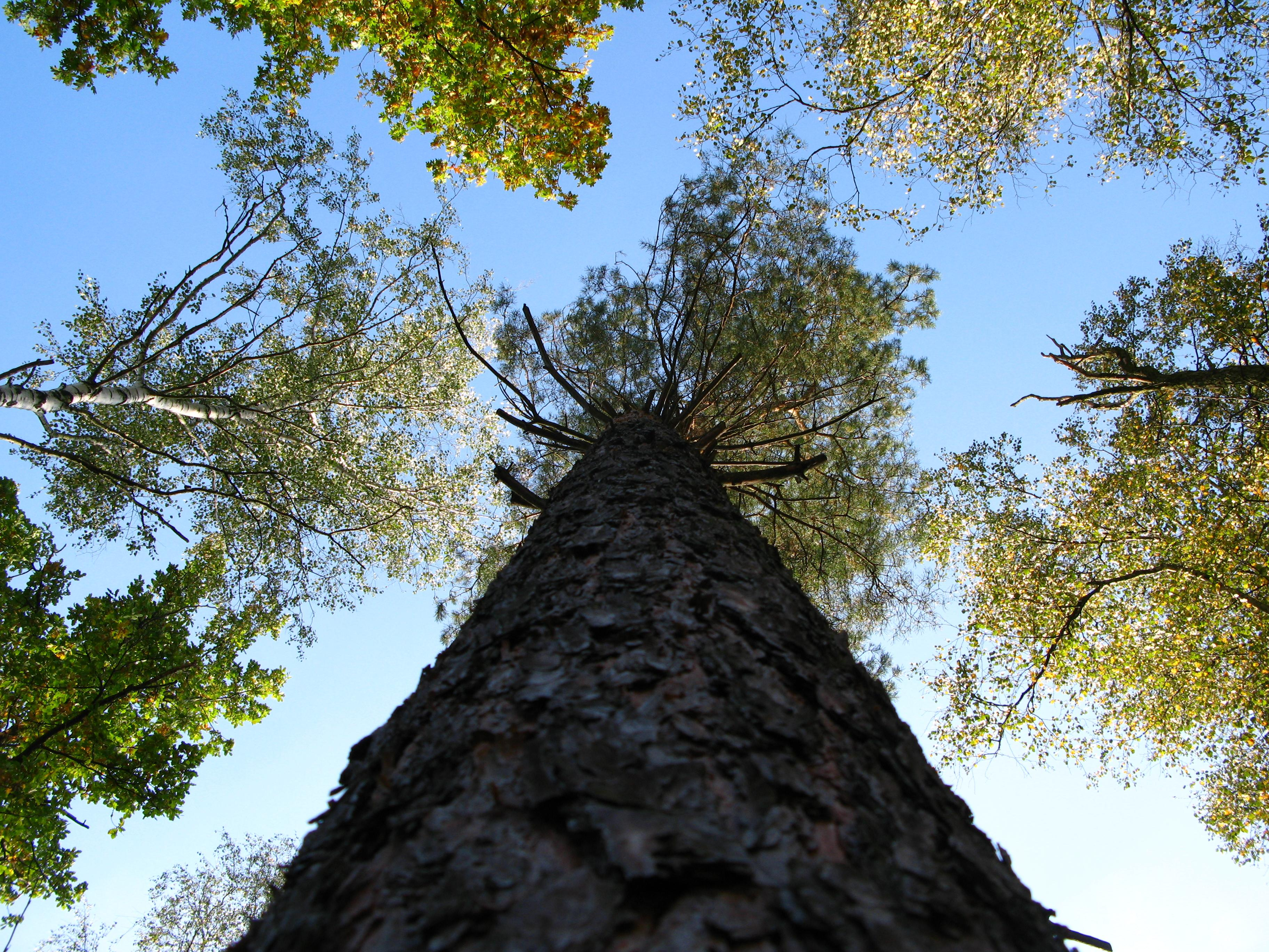 Pinus sylvestris, Marki, Poland